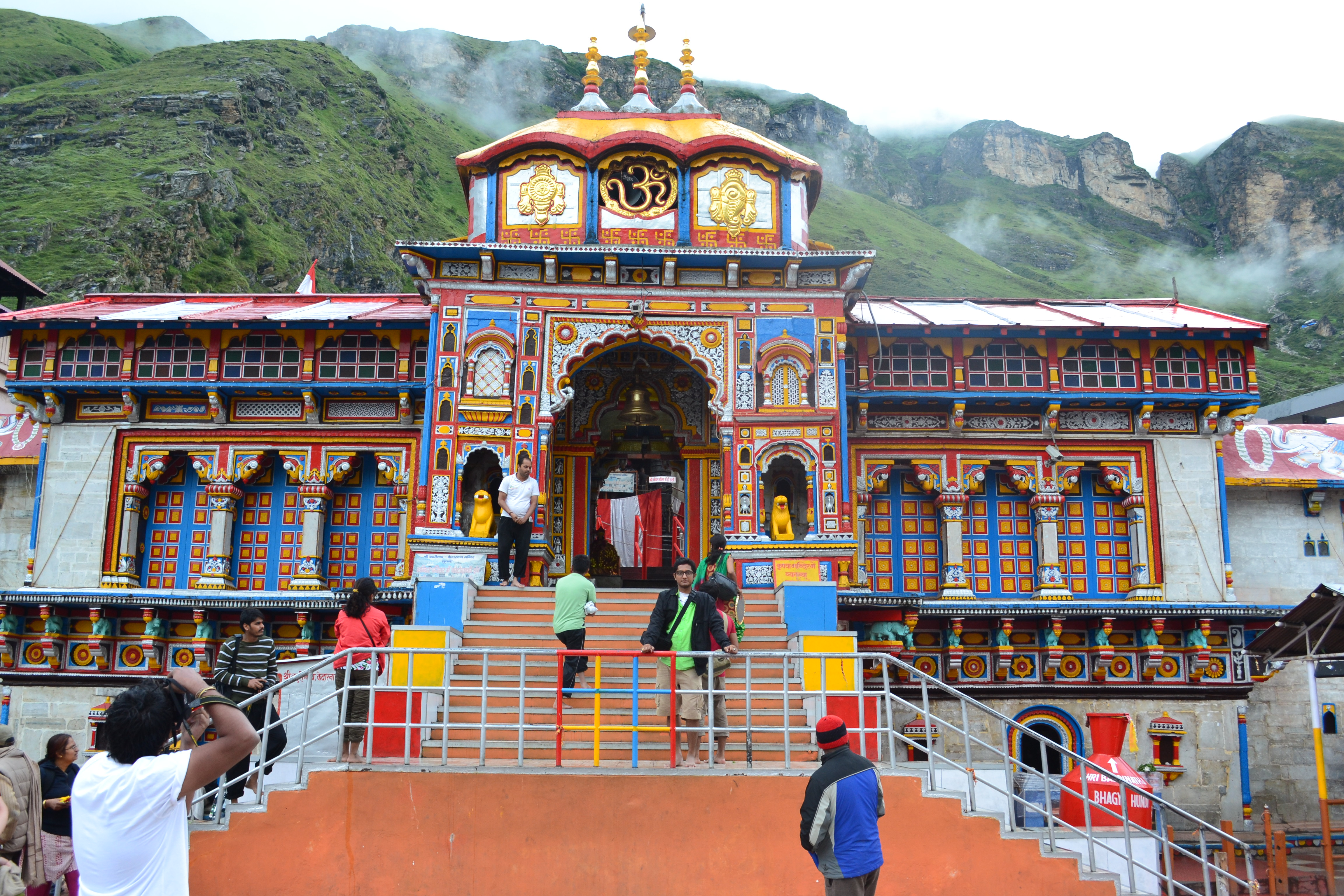 Badrinath temple